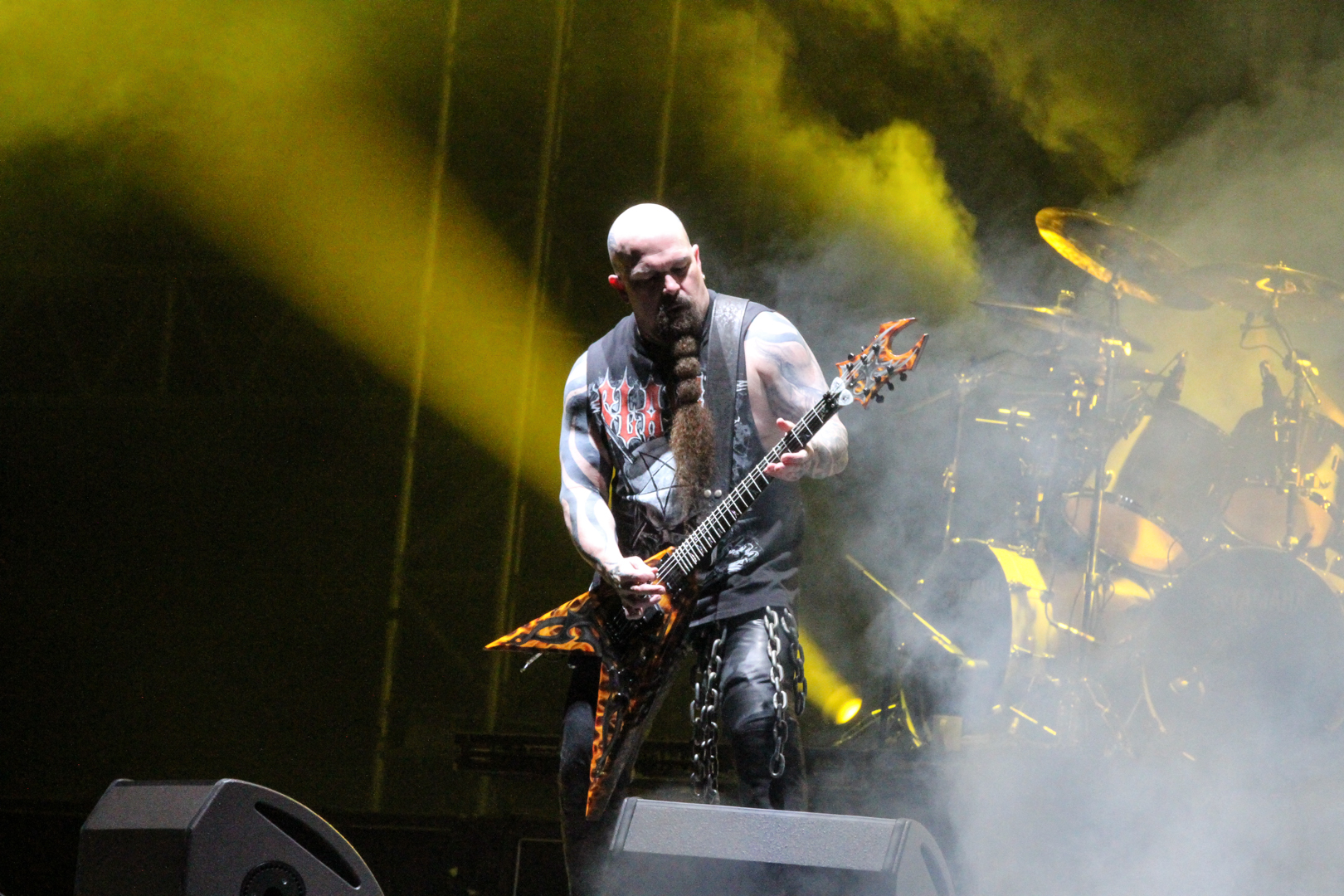 Festivalsommer This photo was created with the support of donations to Wikimedia Deutschland in the context of the CPB project "Festival Summer".